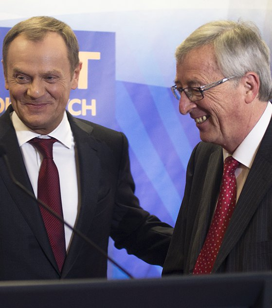 Donald Tusk and Jean-Claude Juncker (Summit of EPP in Poznań, 25 April 2014)